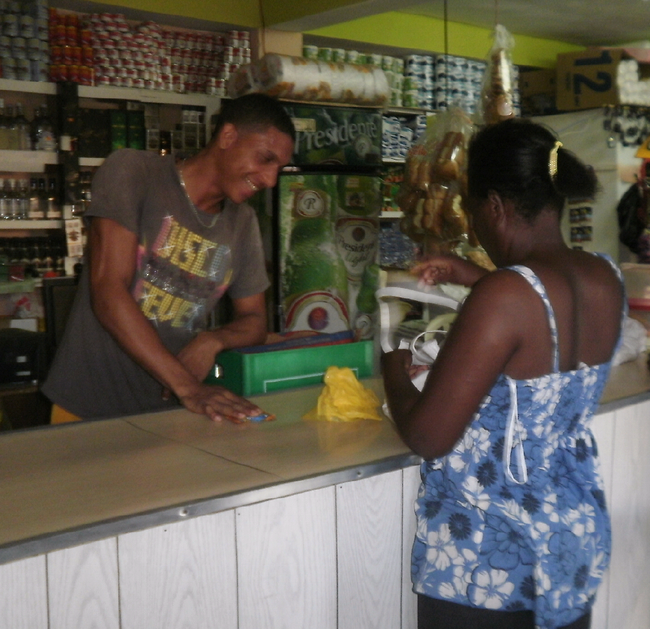 cormado